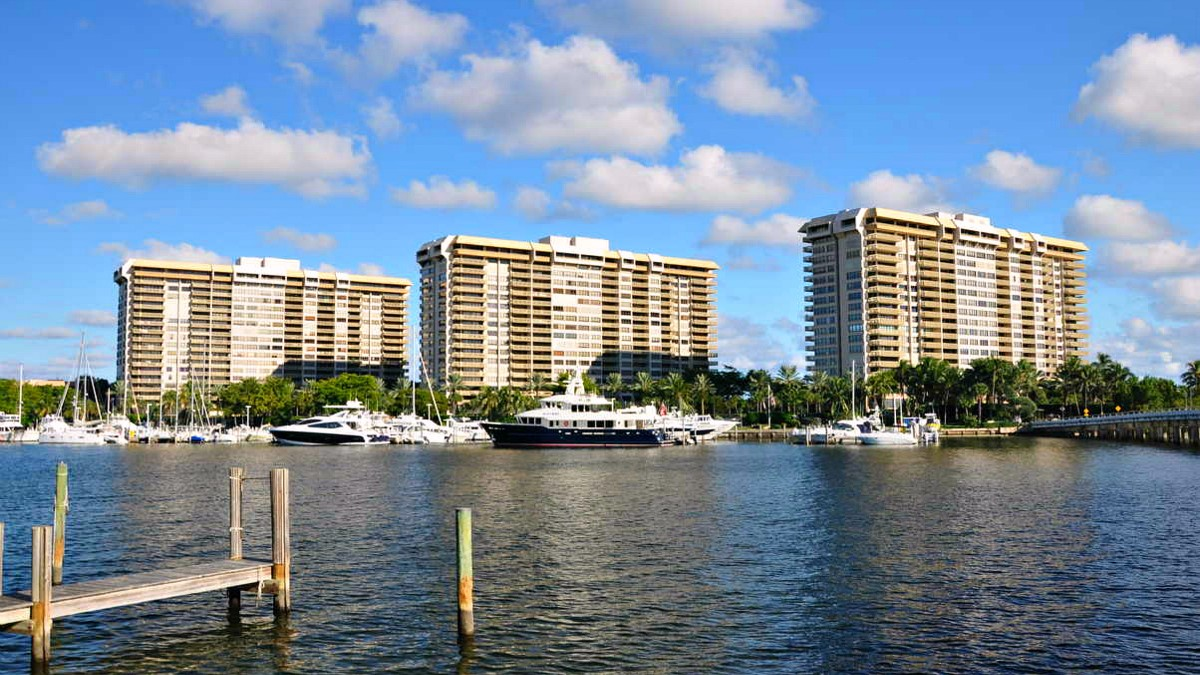 Grove Isle is a 20-acre man made island lying off the North East coast of Miami's Coconut Grove neighbourhood. The island's marina may be seen in the foreground